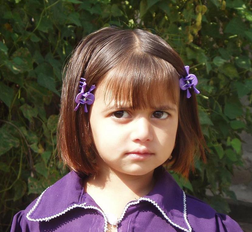 a photo taken by ihsan ullah khan shams